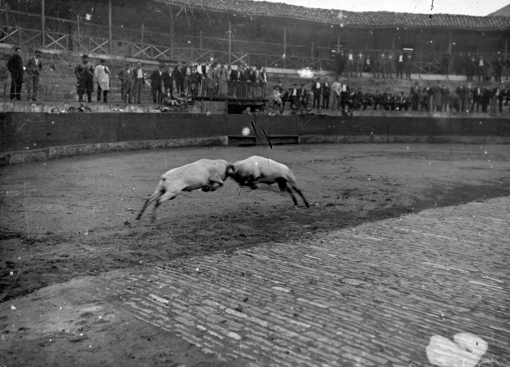 Image of Basque ram fighting (ahari topeka)